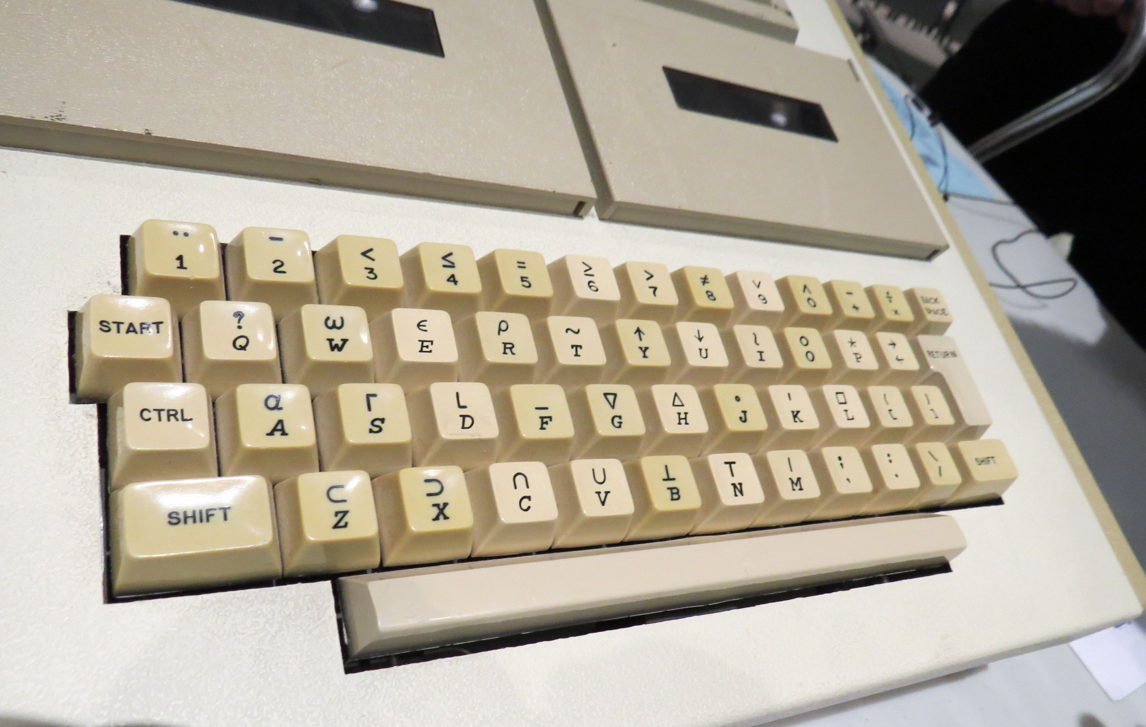 MCM/70 APL keyboard characters on 1972-74 Canadian microcomputer